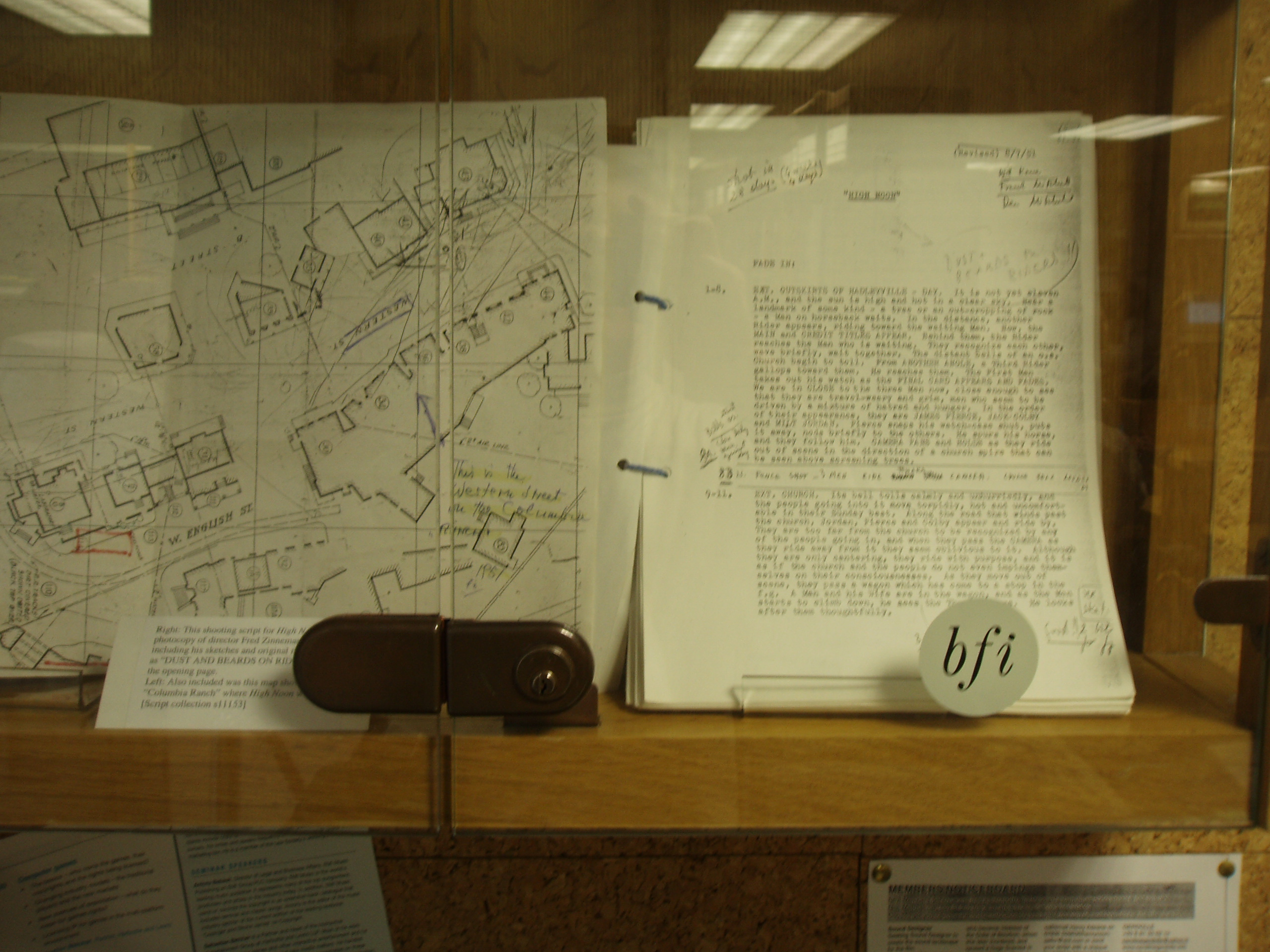 Script and map of the film High Noon displayed at the library of the British Film Institute. “Right: This shooting script for High Noon photocopy of director Fred Zinnemann including his sketches and original [...] as Dust and beards on Rid... [...] the opening page. Left: Also included was the map showing "Columbia Ranch" where High Noon ... [Script collection s11153] ”